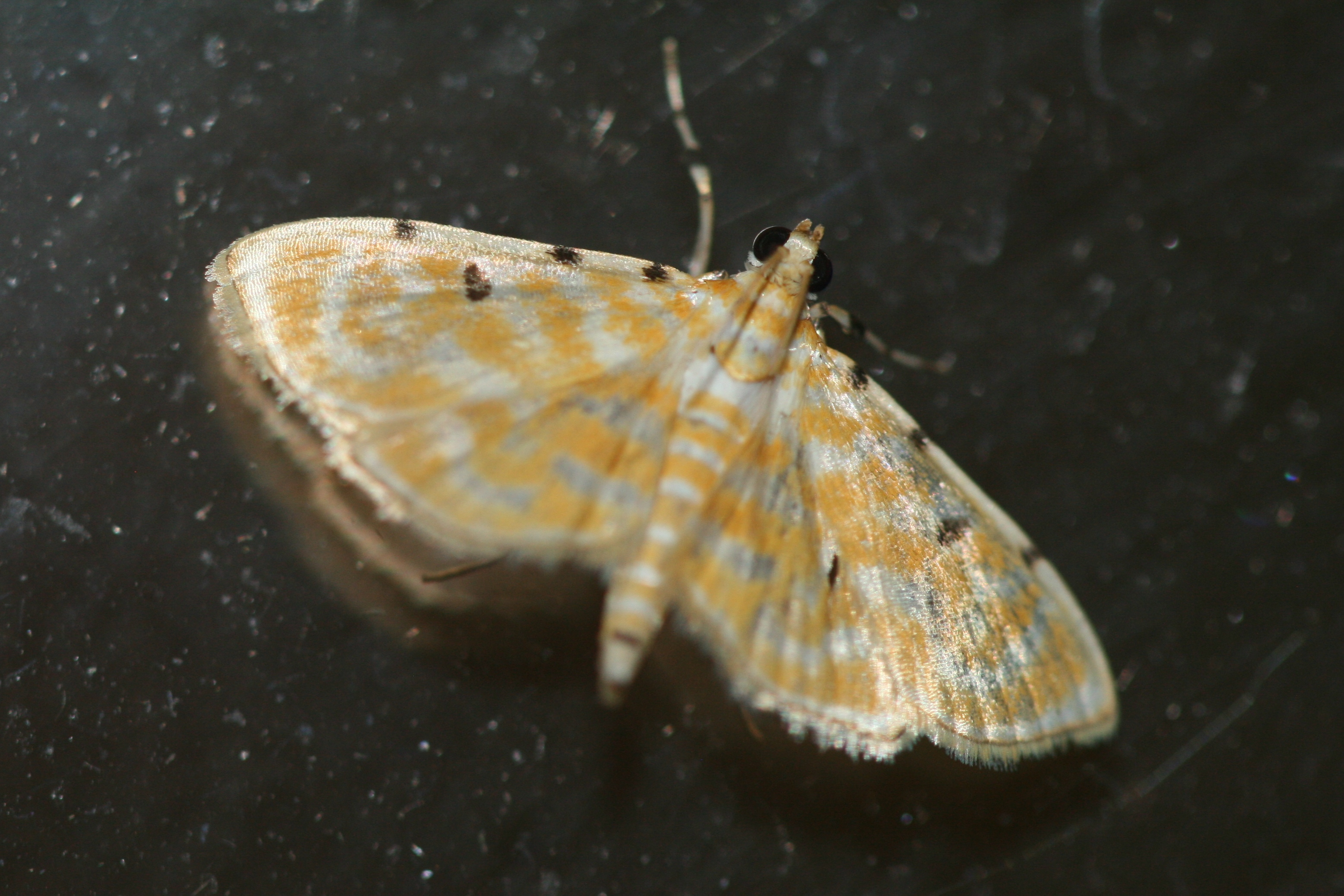 Notarcha aurolinealis (Crambidae: Pyraustinae), Toowoomba, Queensland, Australia. Photographed on 7 April 2009.